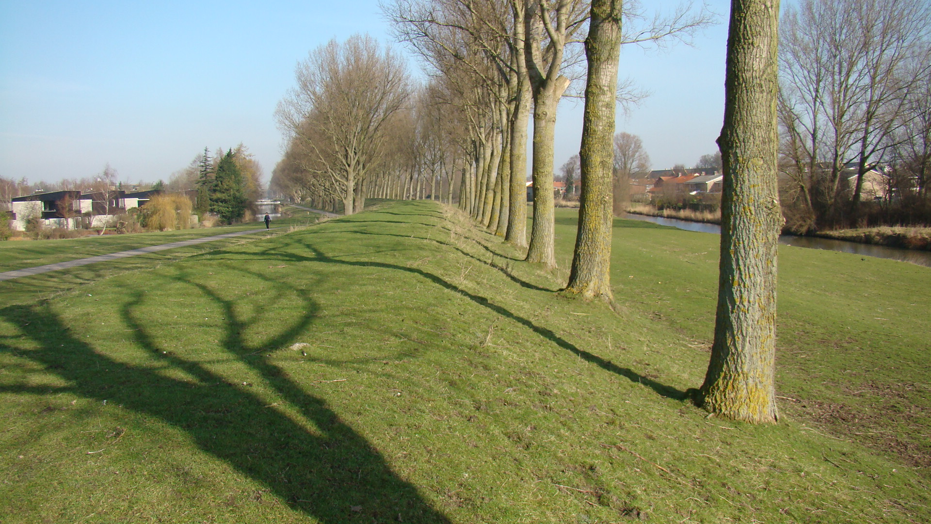 Geniedijk at Hoofddorp